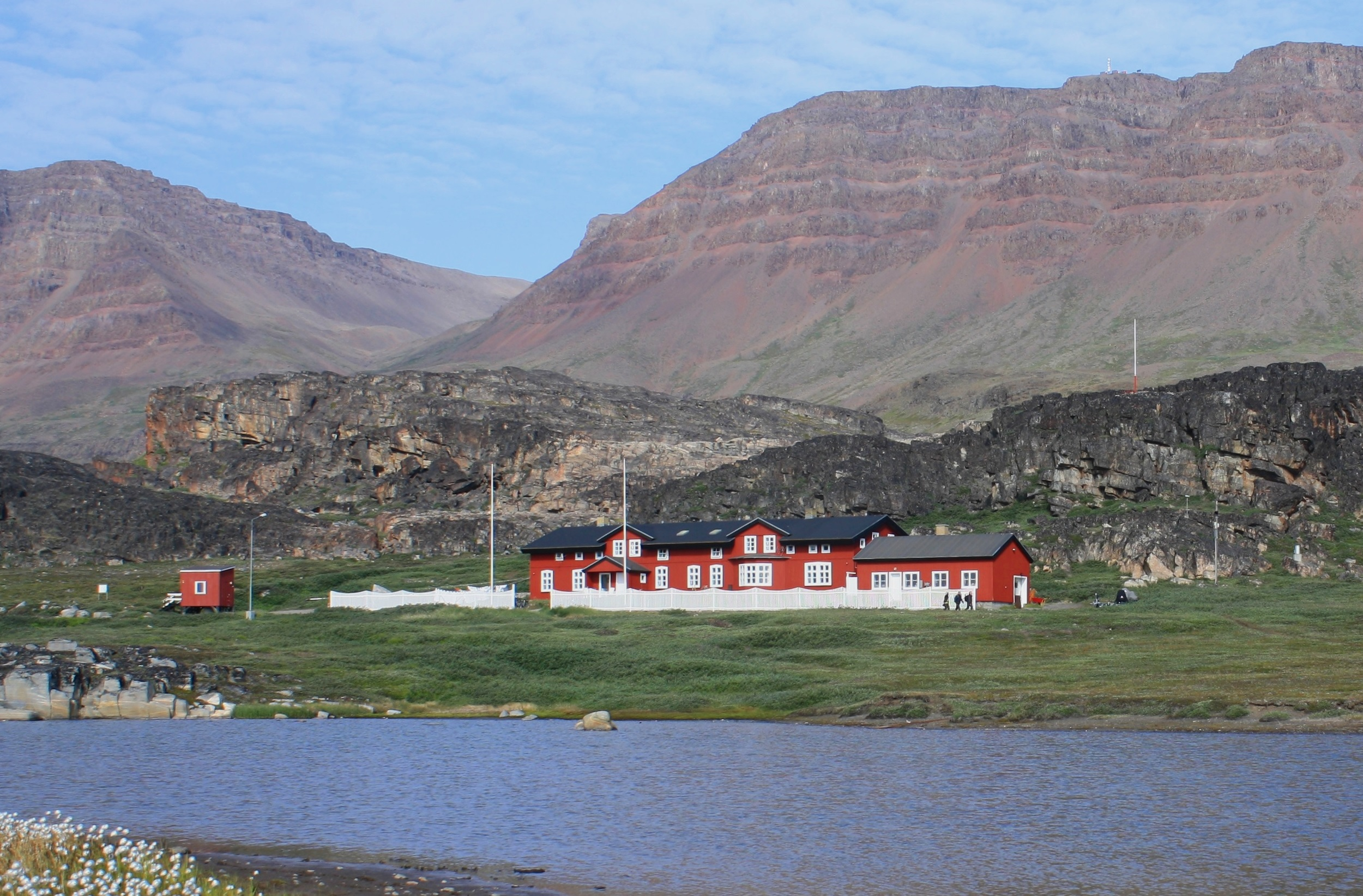 Arctic Station, Qeqertarsuaq, Disko Island, Greenland